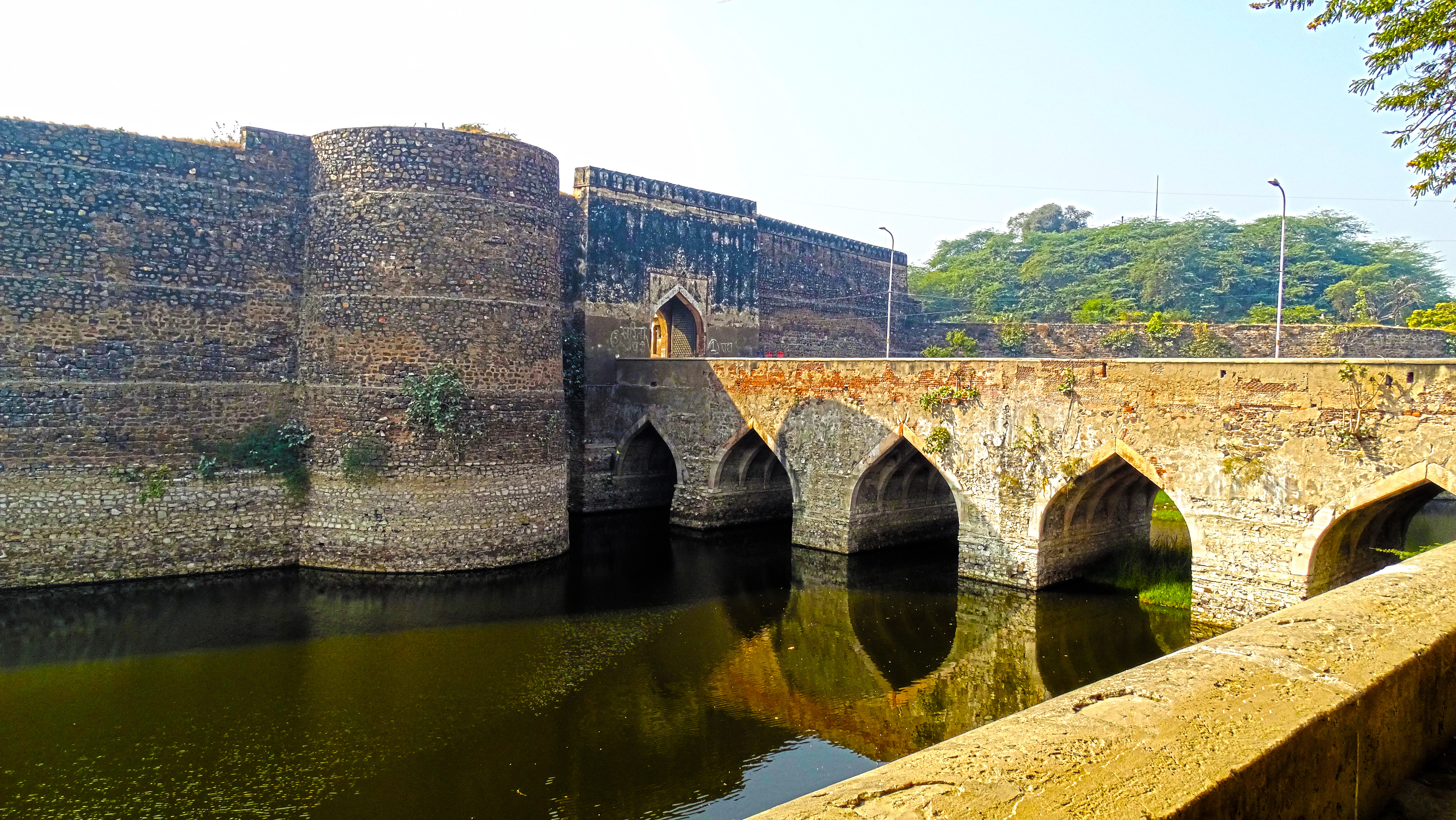 A view of the Bharatpur fort from outsideঅসমীয়া: ভৰতপুৰ দুৰ্গৰ বাহিৰভাগৰ এক দৃশ্য